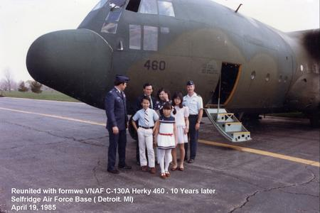 Khiem Pham and his Family Reunited With Saigon Lady after 10 years at Selfridge AFB